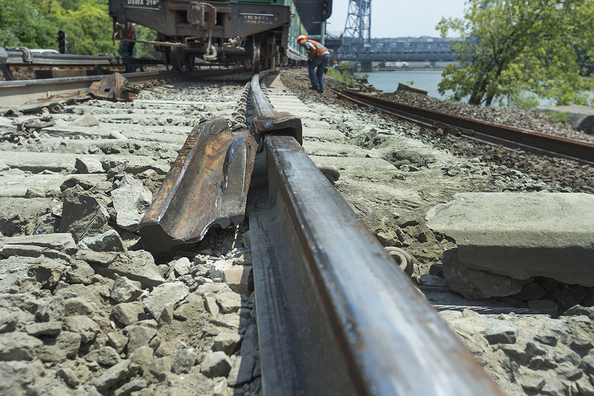 Crews work Friday, July 19 to remove derailed freight cars and repair damaged right-of-way along Metro-North Railroad's Hudson Line in the Bronx after derailment the previous evening. MTA Photo by Patrick Cashin